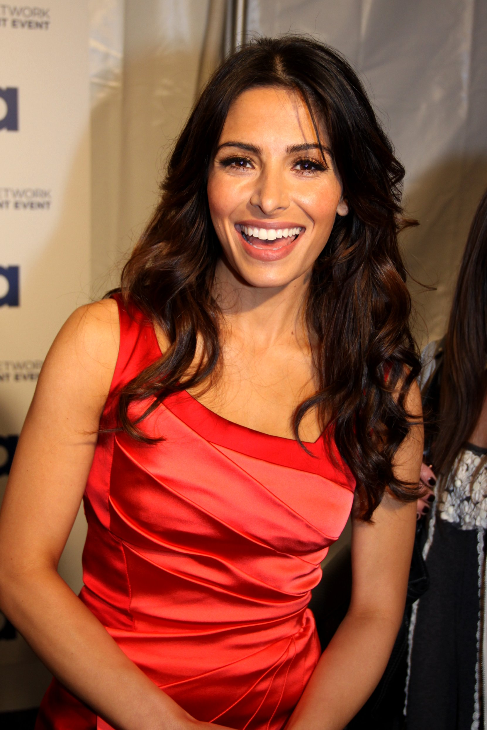 Sara Shahi playes Kate Reed in USA Network's "Fairly Legal".